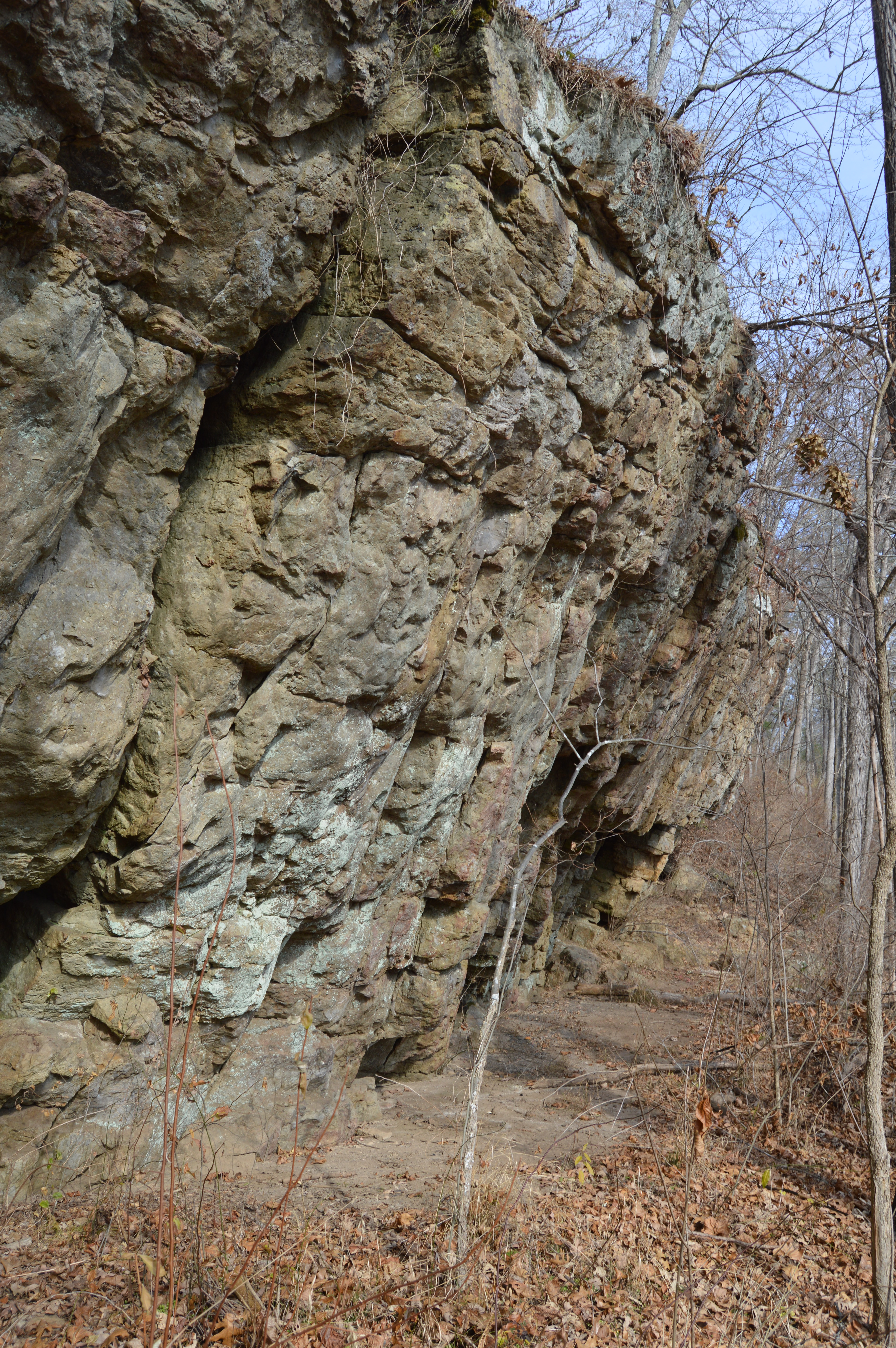 Looking east near the drip line of the Hidden Valley Rockshelter, located along the Jackson River in the Hidden Valley of Bath County, Virginia, United States. The rockshelter is a major archaeological site and has been listed on the National Register of Historic Places.